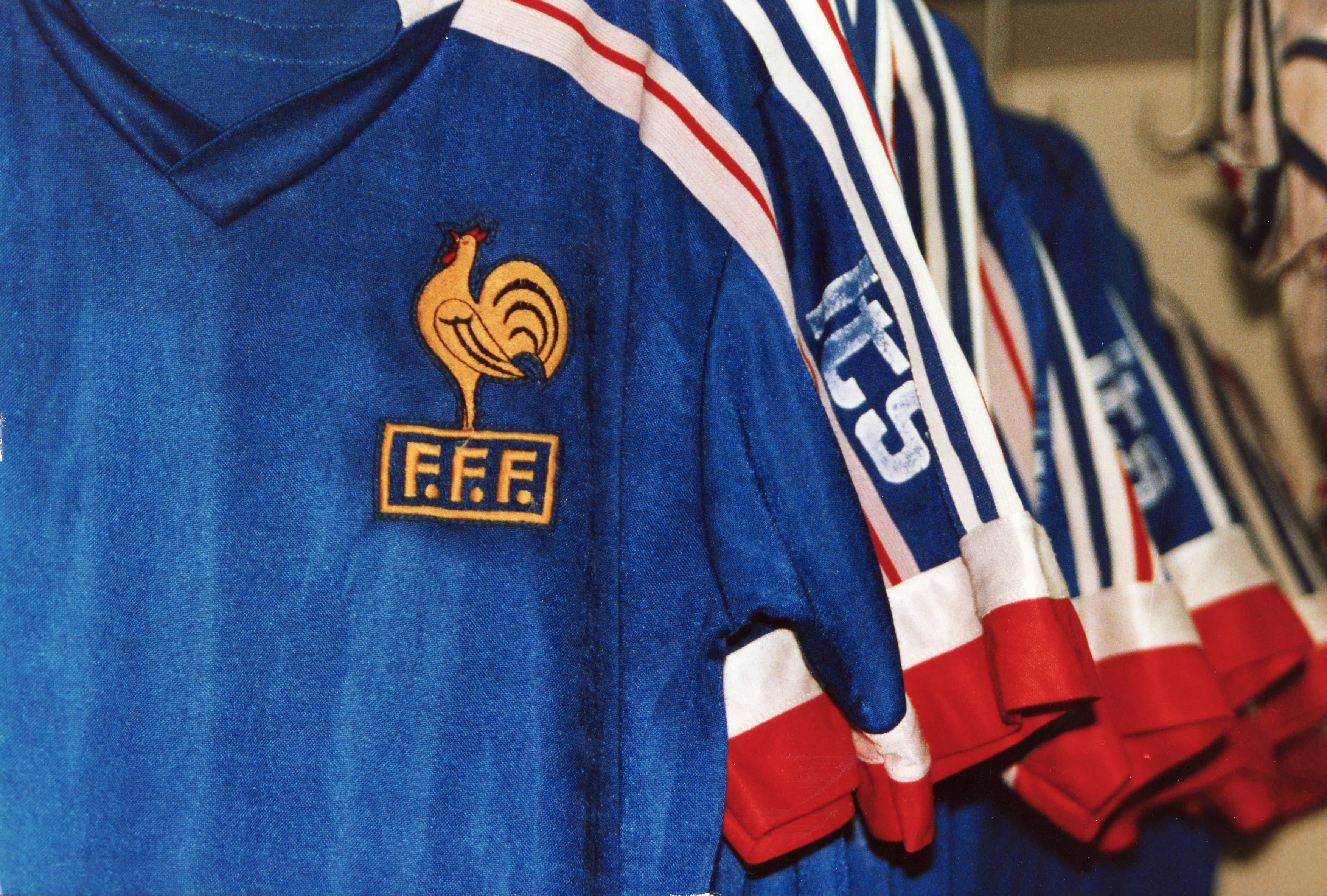 I also played football....